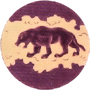 Emblem of the 46th Fighter Squadron (World War II)